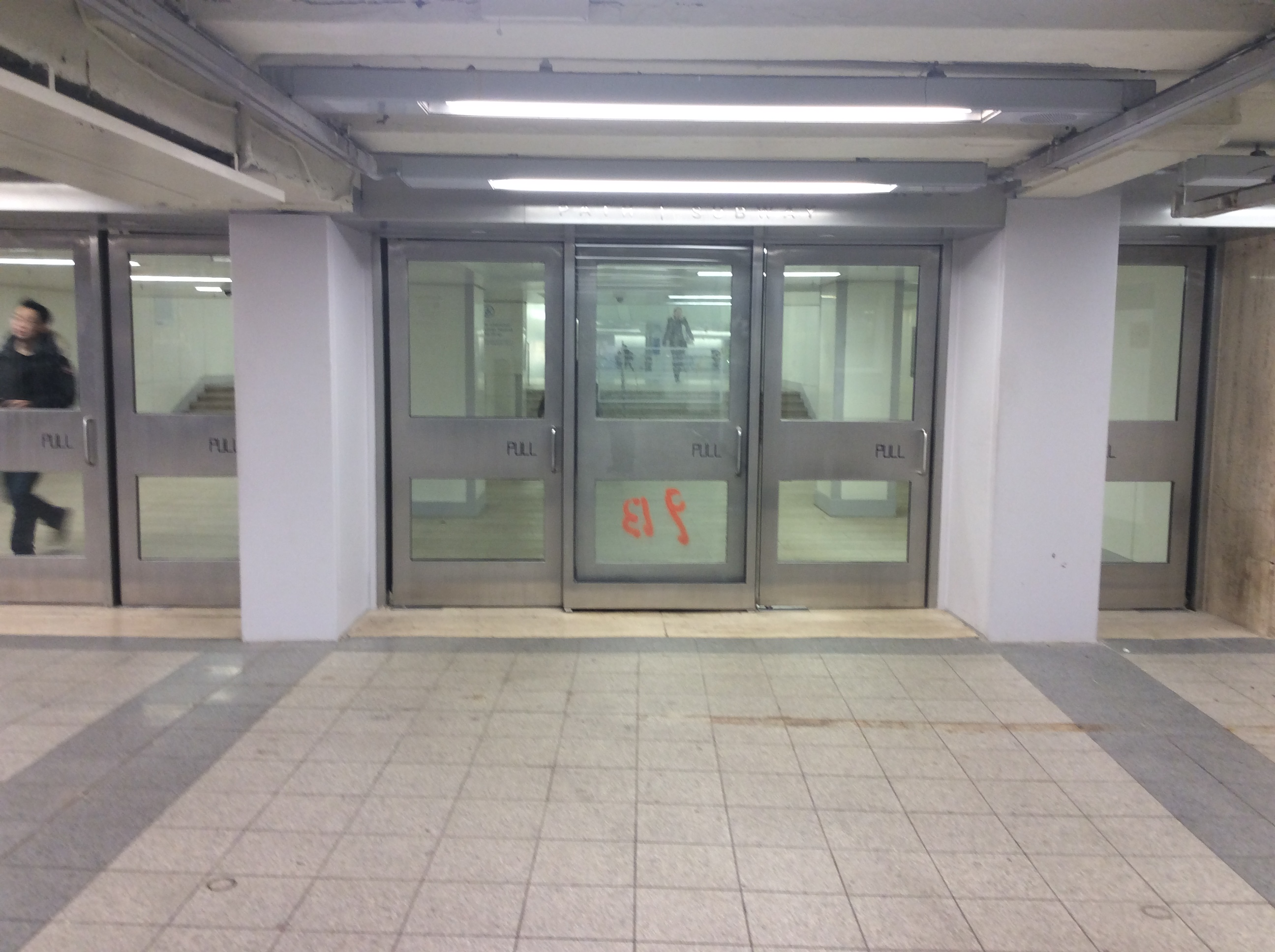 A door to the old World Trade Center, a 9/11 artifact. Seen in February 2017